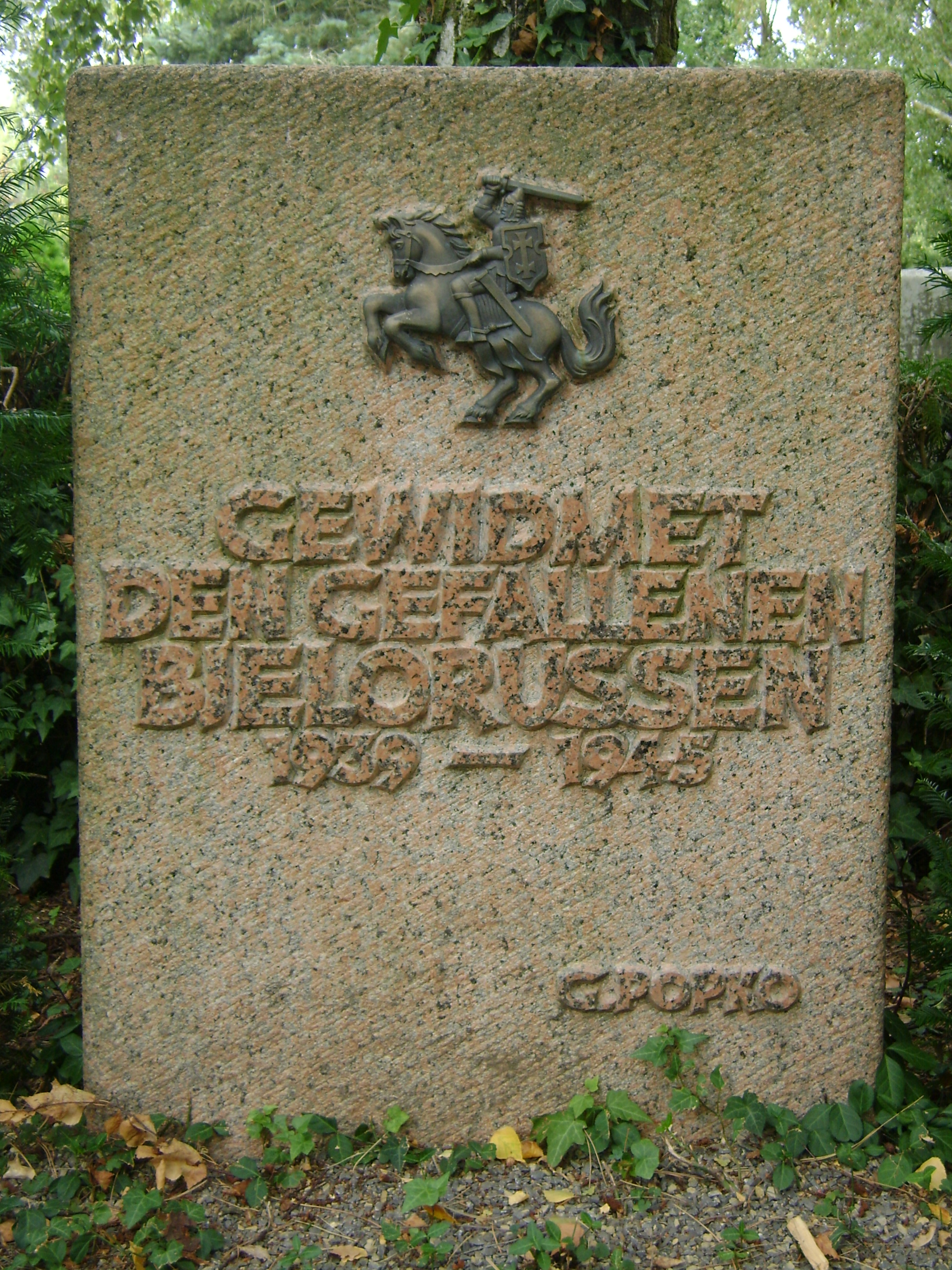 Monument for the fallen Belarusians 1939—1945 at the cemetery St. Ilgen in Leimen